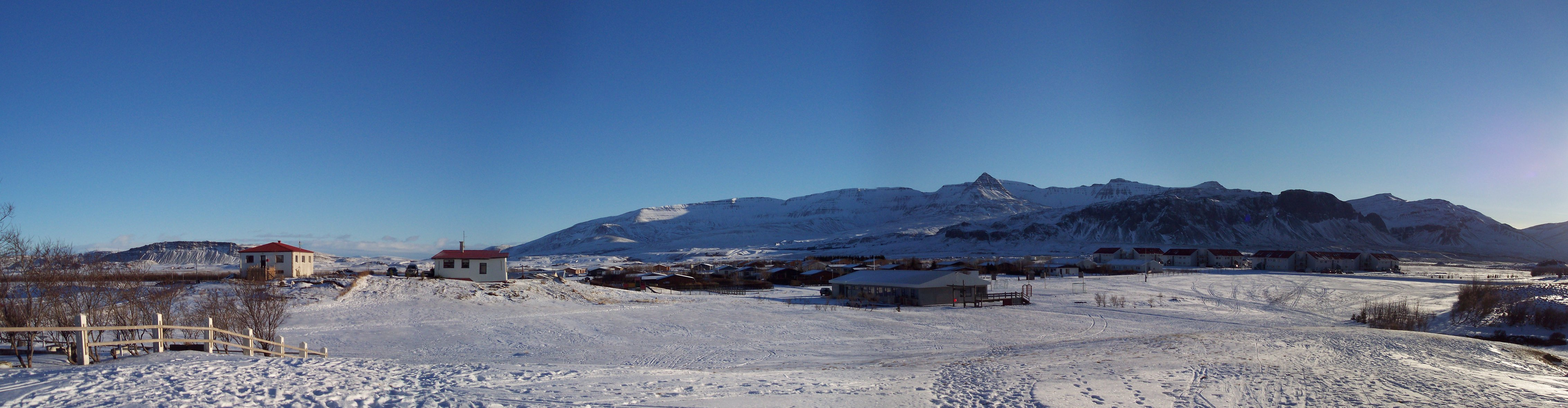 Panorama of Hvanneyri i Borgarfjörður, Iceland.